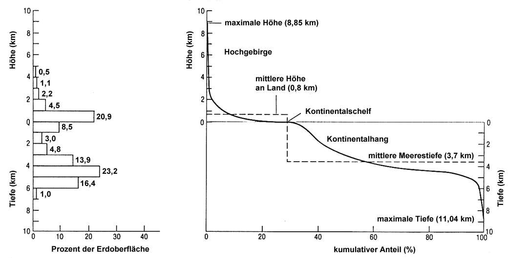 Earth's hypsographic curve with German labels